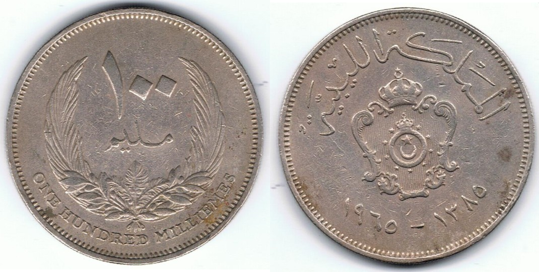 One hundred Milliemes